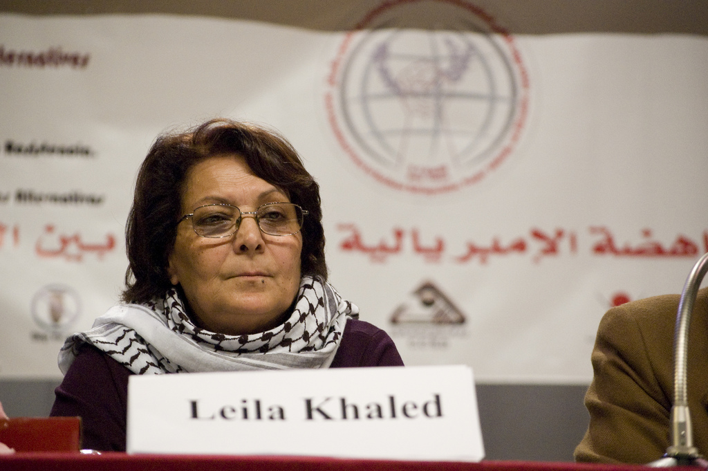 Leila Khaled at the Beirut International Forum for Resistance, Anti-Imperialism, Solidarity between Peoples, and Alternatives Beirut, 16-17-18 January 2009. (Photo: 2009-01-18.)